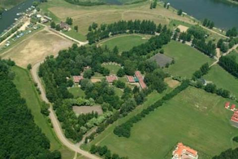 Tiszafüred, Hungary, aerialphotography